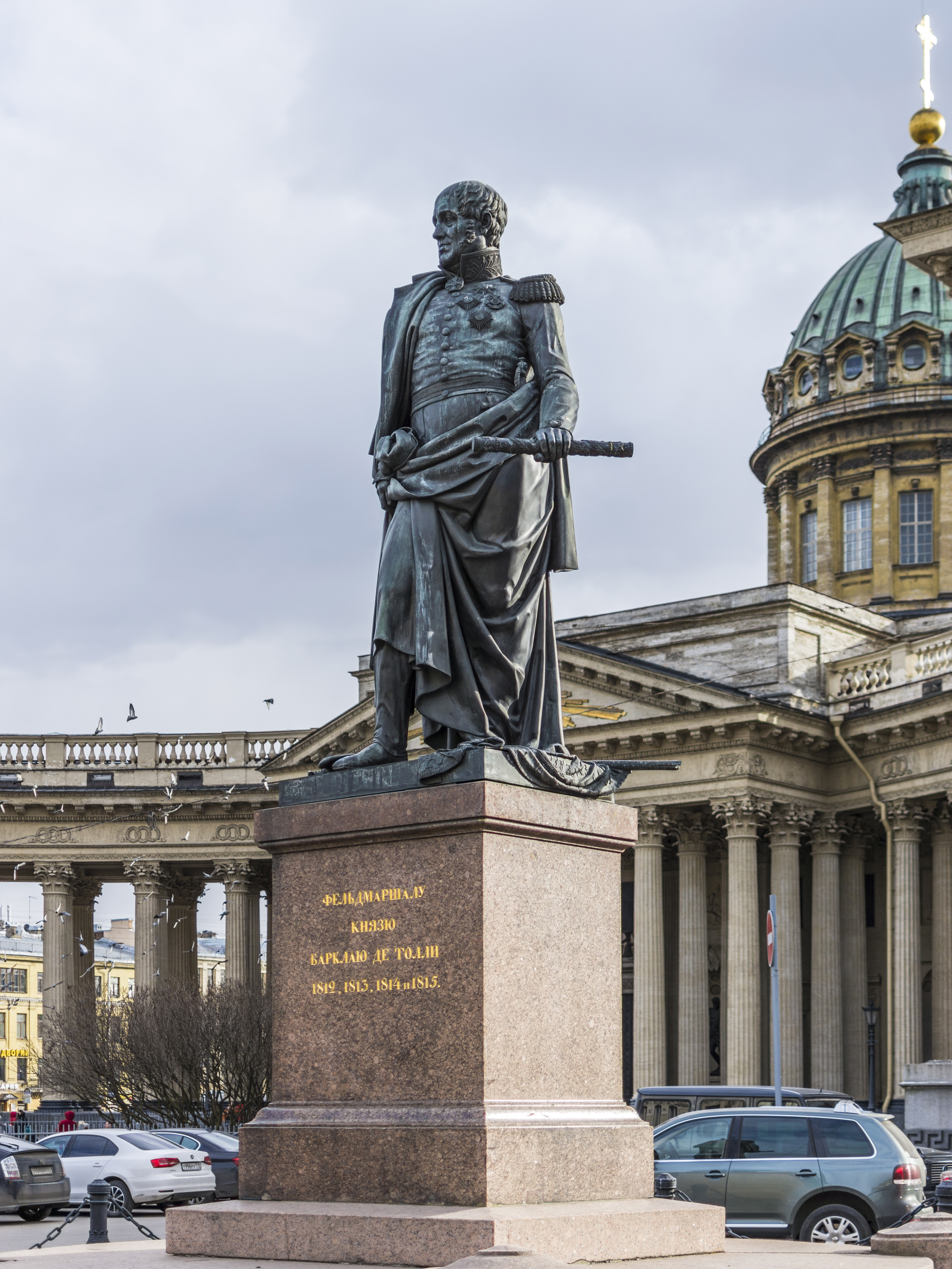 Monument to Michael Andreas Barclay de Tolly in Saint Petersburg